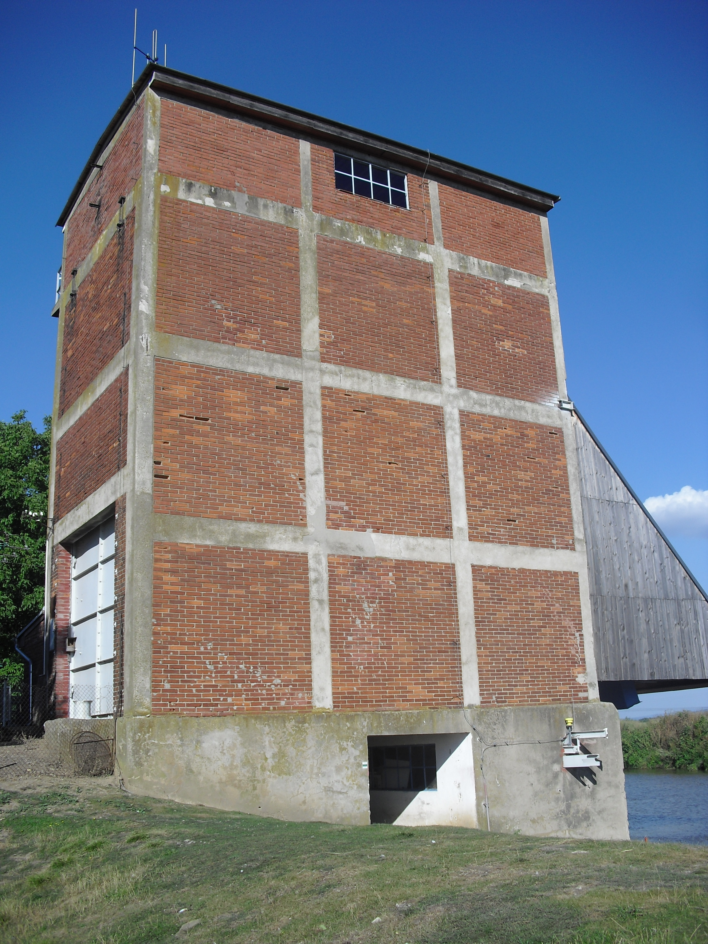 Sudoměřice, Hodonín District, Czech Republic. Tipper at the Bata Canal.